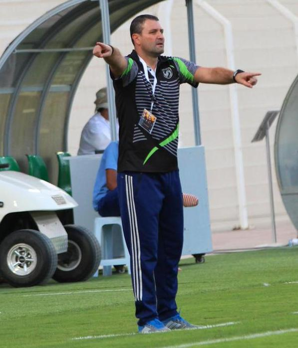 Aristică Cioabă in a game for Saham Club against Al Shabab. 21 September 2015 Al-Seeb Stadium Photographer email id